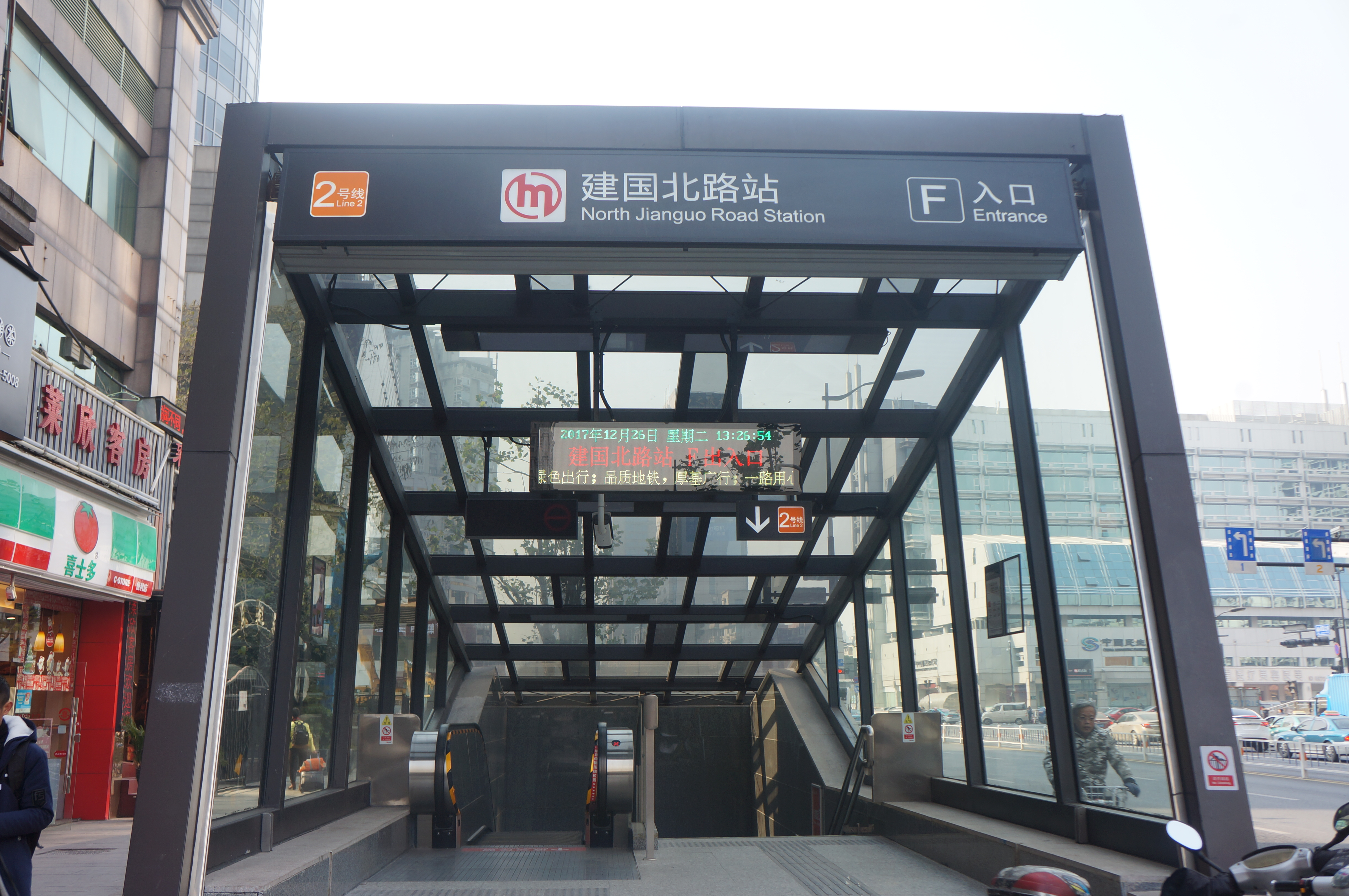 201712 Exit F of North Jianguo Road Station